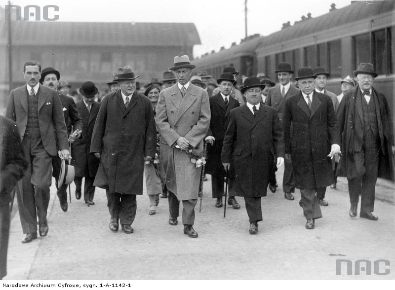 The departure of the Marshal of the Senate of Poland Wladyslaw Raczkiewicza (1885-1947) to Argentina and Brazil, 6 June 1933 AD